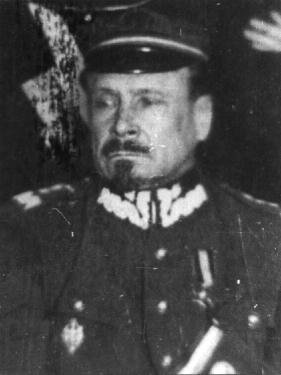 Józef Haller